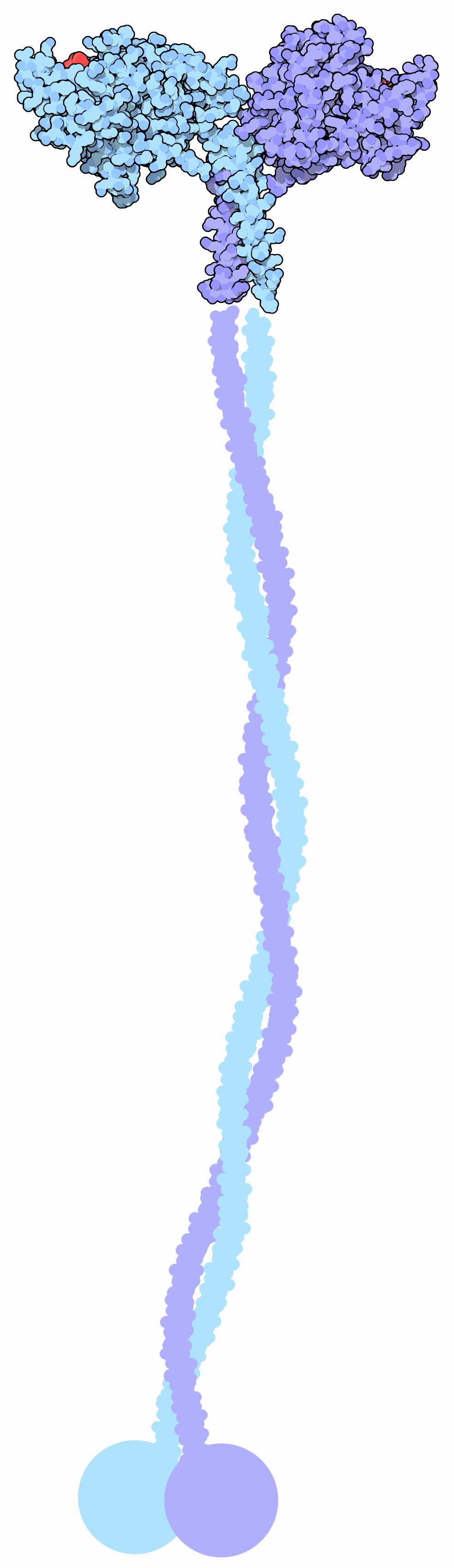 Shaded space-fill drawing of the two heads and neck of the kinesin motor protein (at top), with the coiled-coil tail and cargo-binding sites drawn in schematically. From PDB file 3kin, by David Goodsell in RCSB Molecule of the Month #64.